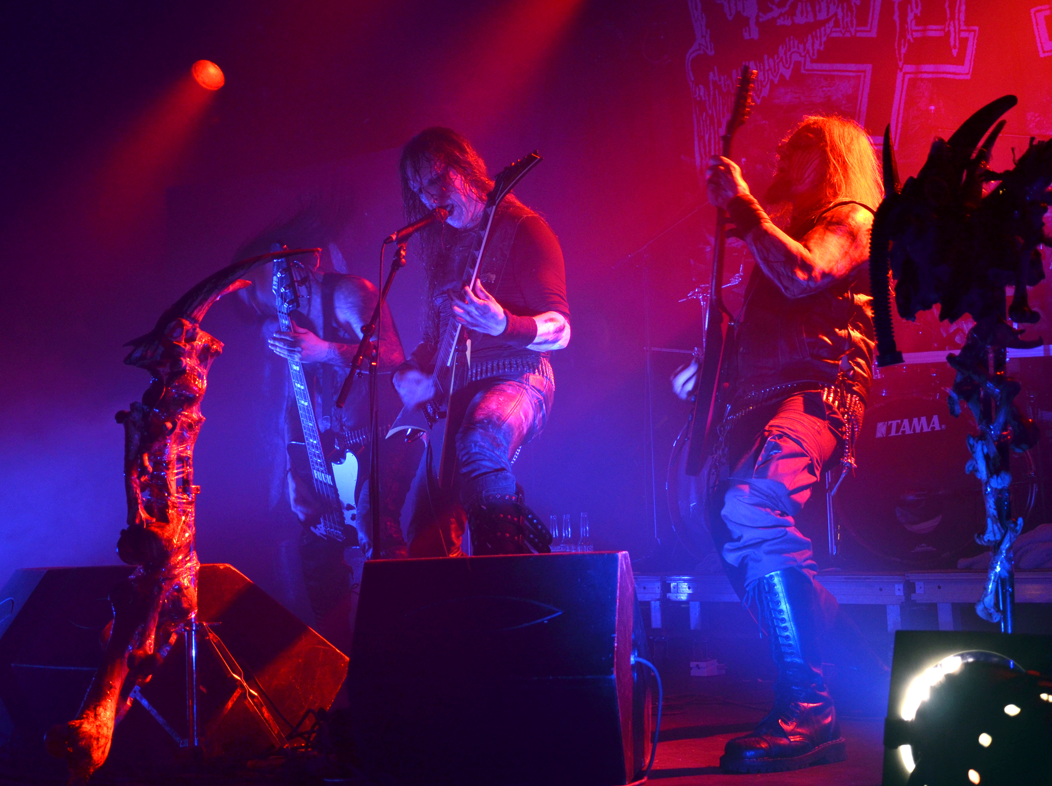 Belphegor performing at the Throne Fest in Kuurne ( Belgium ) on the 11th of May 2013.